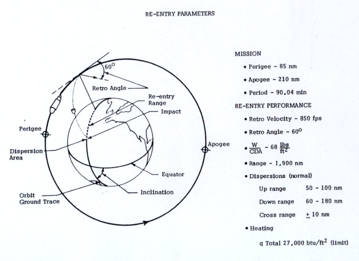 CORONA reentry parameters